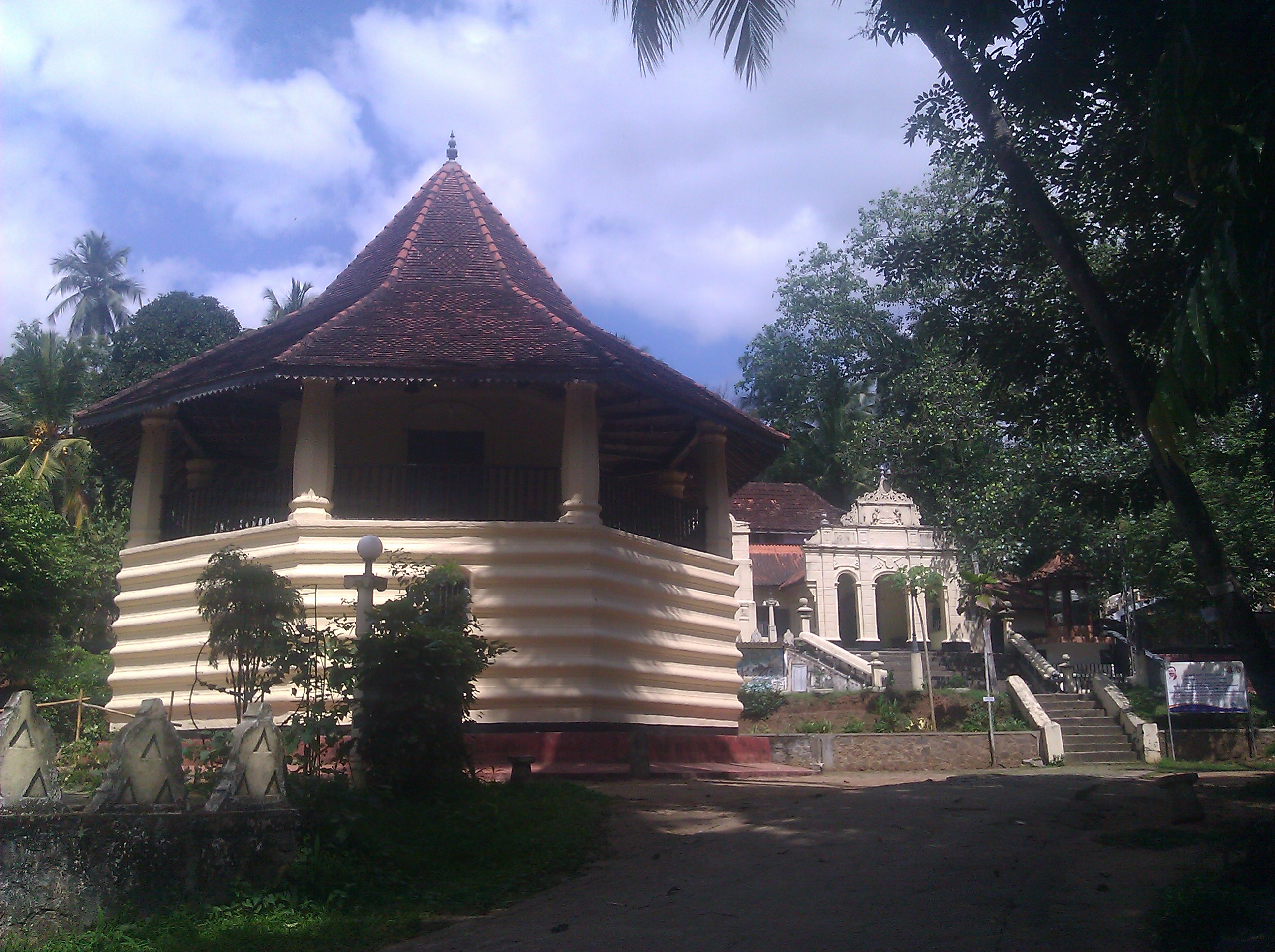 Beligammana Raja Maha Viharaya Mawanella. (A Temple where Utuwankande Sura Saradiel Studied once)